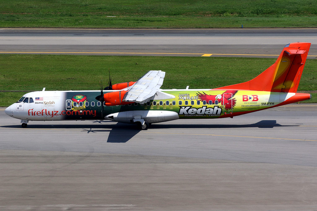 FF at AOR